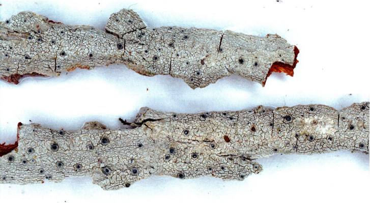 Conotrema urceolatum (Ach.) Tuck., 1848 Photograph of a herbarium specimen. This specimen of C. urceolatum was growing on smooth bark near the Endless Mountain Retreat, S on County Road 601, approximately 2.4 miles from US 250 in Highland County, Virginia, USA. Collected by E.C. Uebel, determined by Don G. Flenniken (No. U-383, 8 Jun 2002).